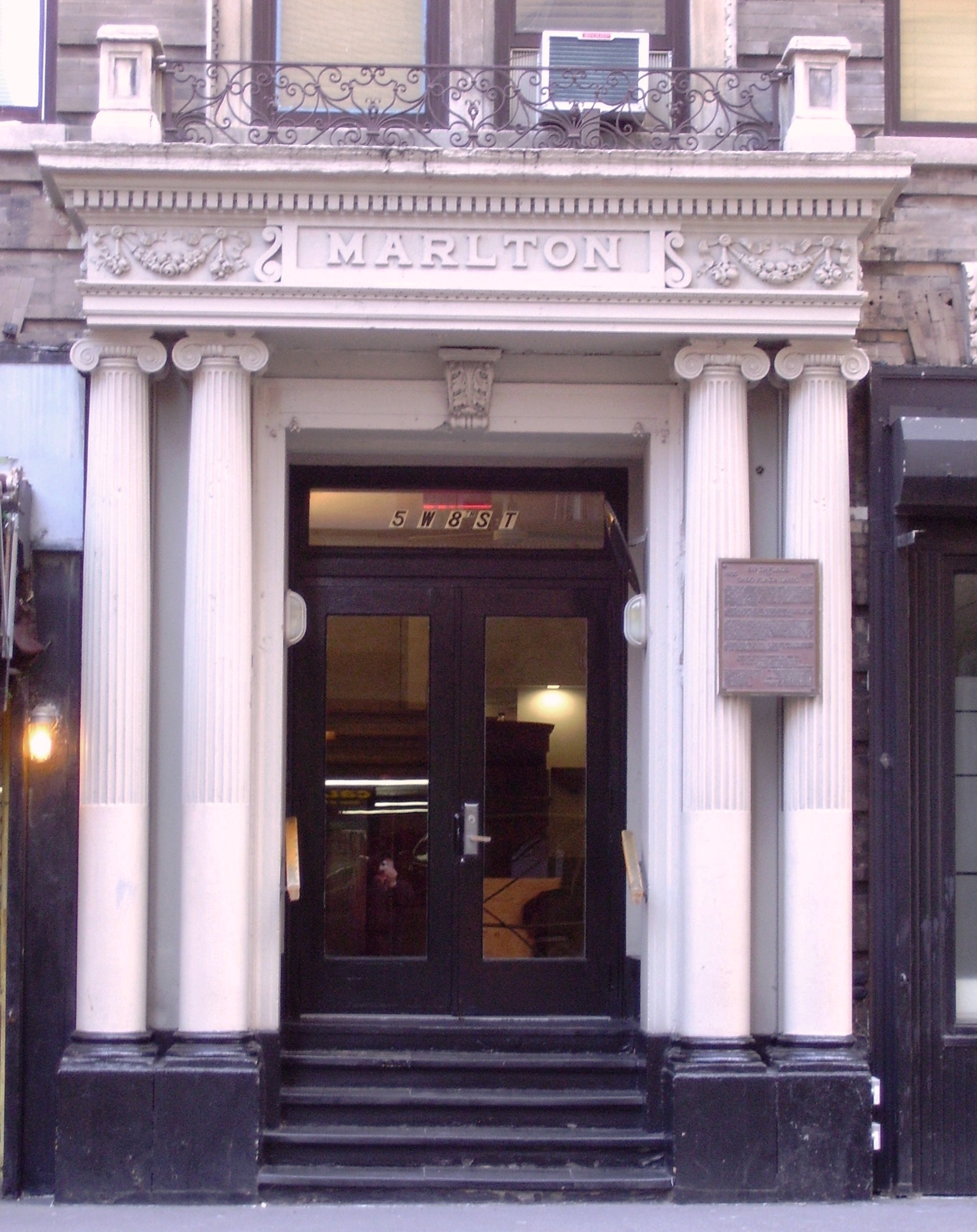 Marlton House, at 3-5 West 8th Street between Fifth and Sixth Avenues in the Greenwich Village neighborhood of Manhattan, New York City, was built in 1900 as an SRO hotel, the Hotel Marlton, but since 1987 has been a dormitory for The New School.